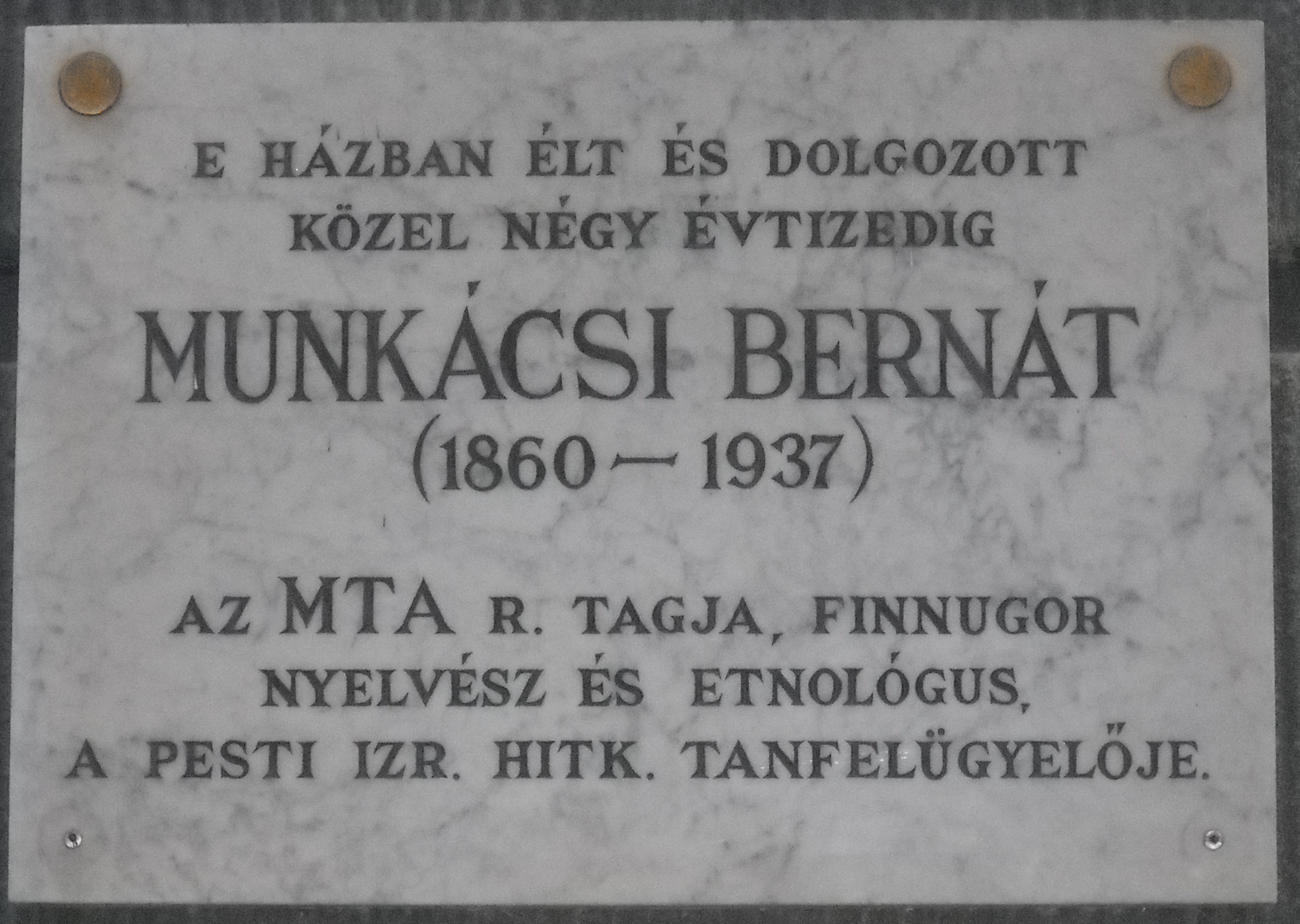 Bernát Munkácsi commemorative plaque in Budapest District VI, Szondi Street No 9